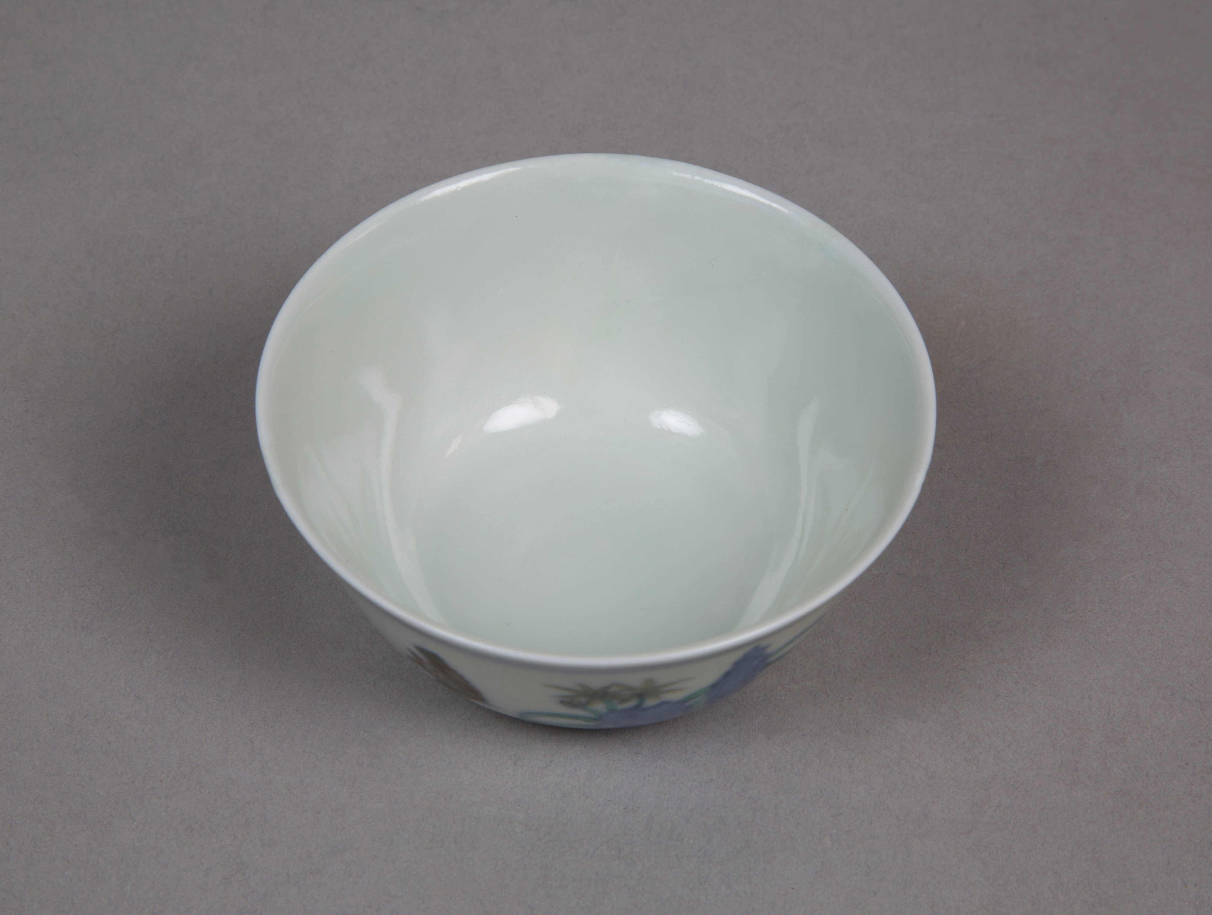 China; Cup; Ceramics